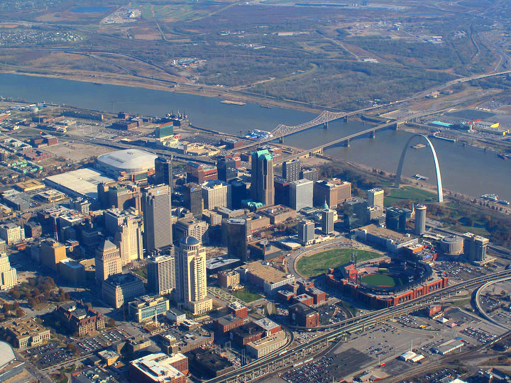 View of downtown St. Louis, including the new Busch Stadium and the Gateway Arch. I took this while sitting in the window seat on the approach to STL airport from ATL.